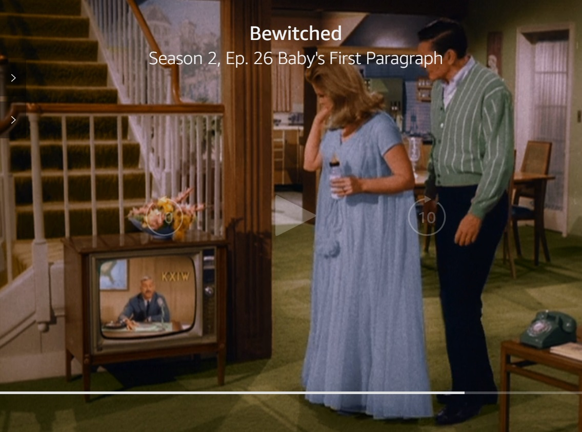 Screenshot of KXIW on Bewitched in 1966